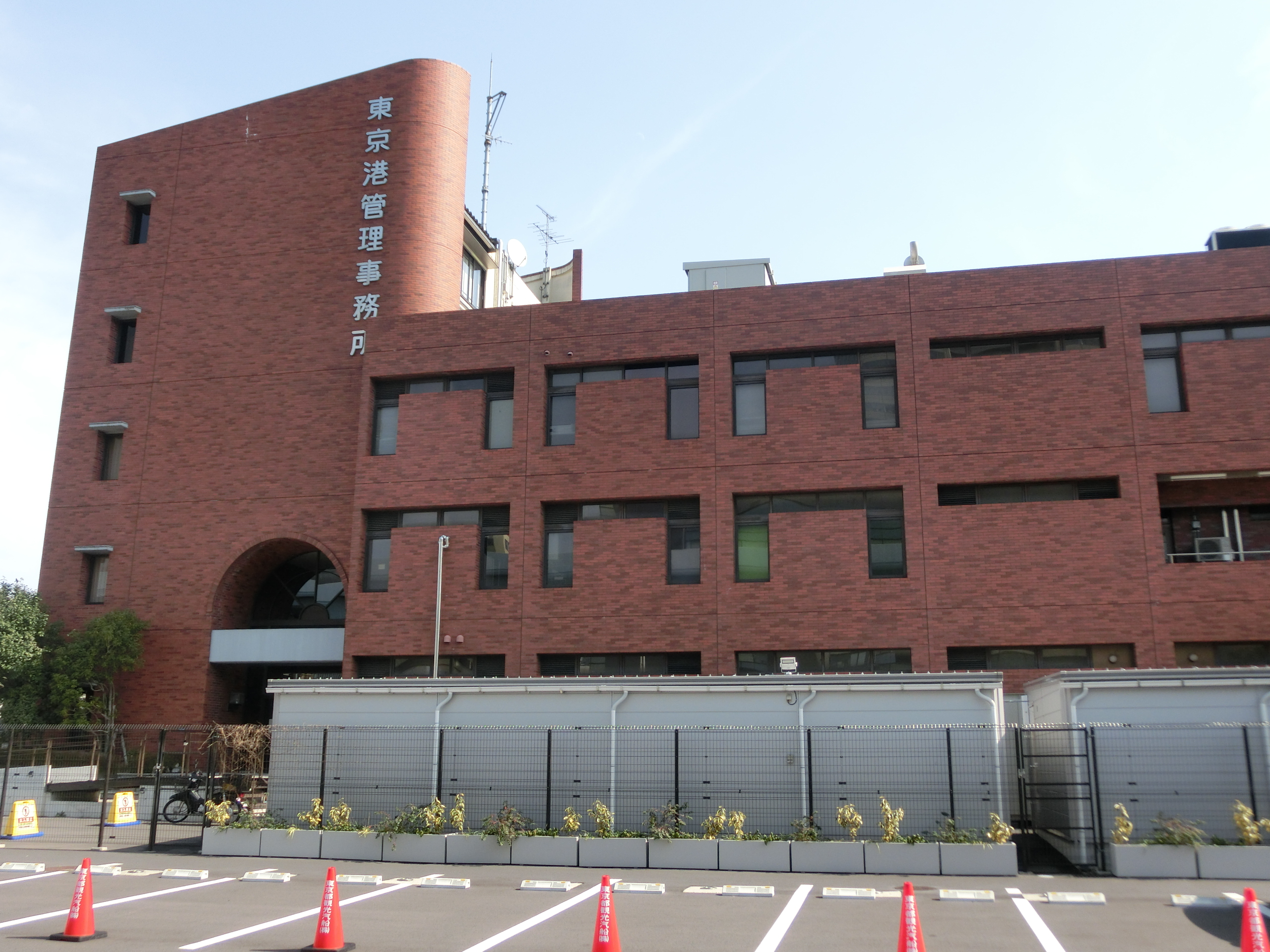 Tokyo Port Management Office